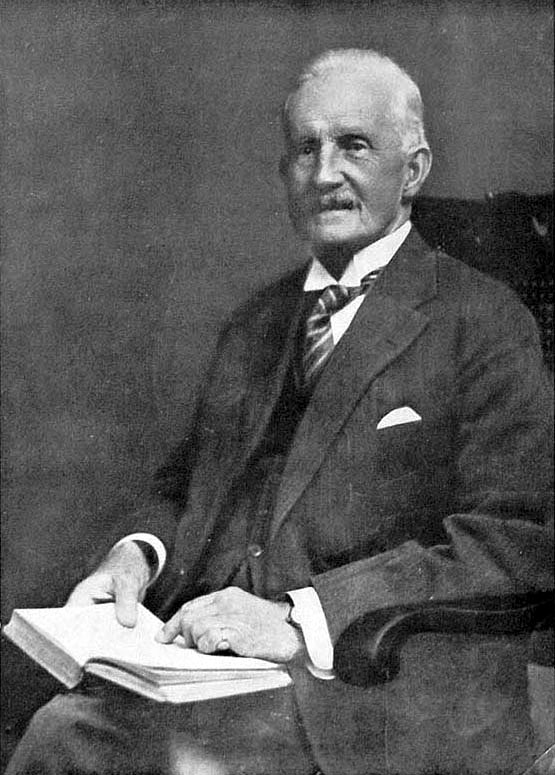 Alexander Watson Hutton, founder and president of the Argentine Football Association and football team Alumni Athletic Club, the most successful team during the amateur era. He is considered the "father" of Argentine football.